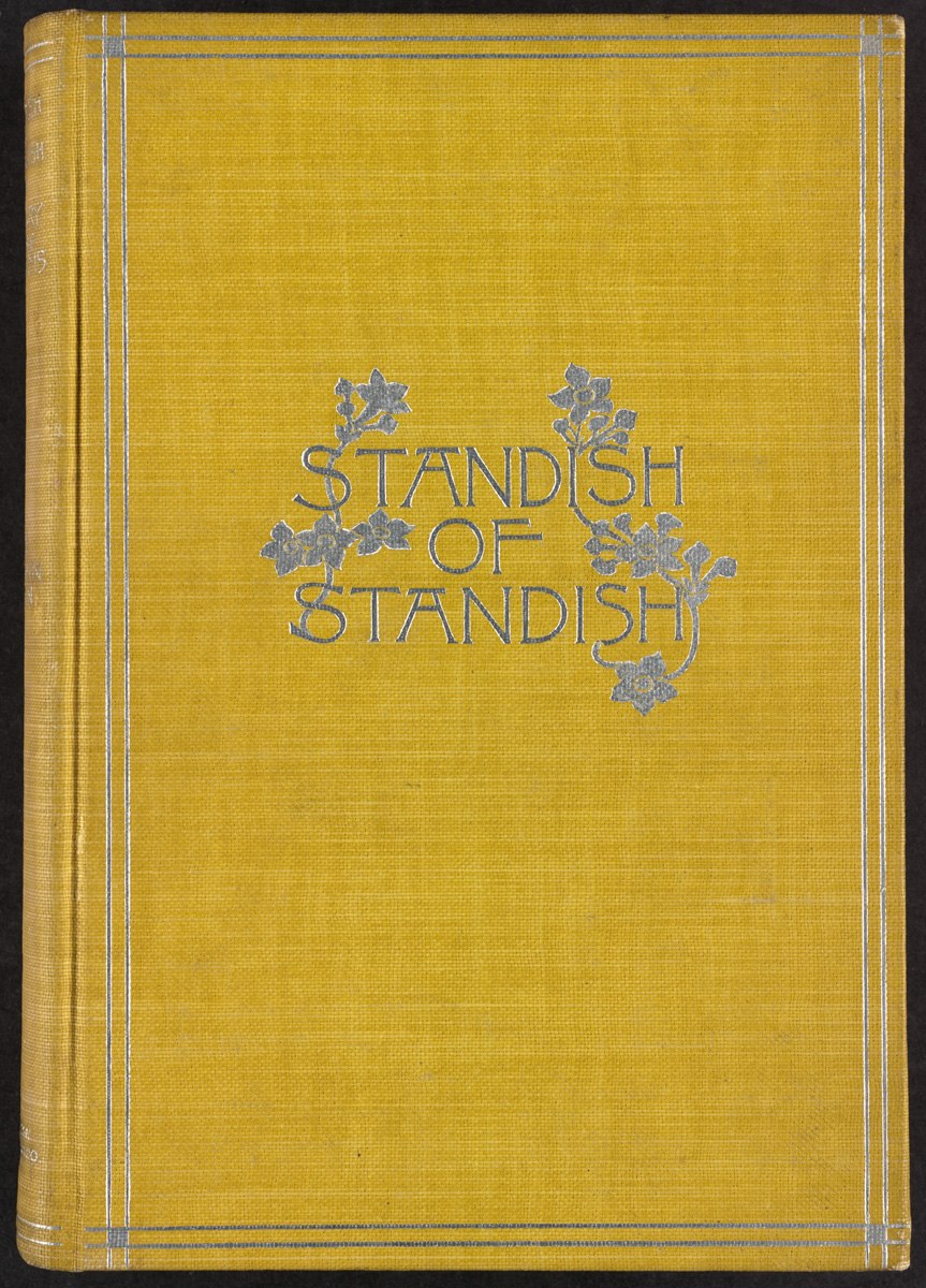 File name: 06_04_000155Title: AUSTIN(1895) Standish of StandishDate issued: 1895Genre: Book coversNotes: Austin, Jane G. (Jane Goodwin), 1831-1894 (Author)Collection: Sarah Wyman Whitman BindingsLocation: Boston Public Library, Special CollectionsRights: No known copyright restrictions.